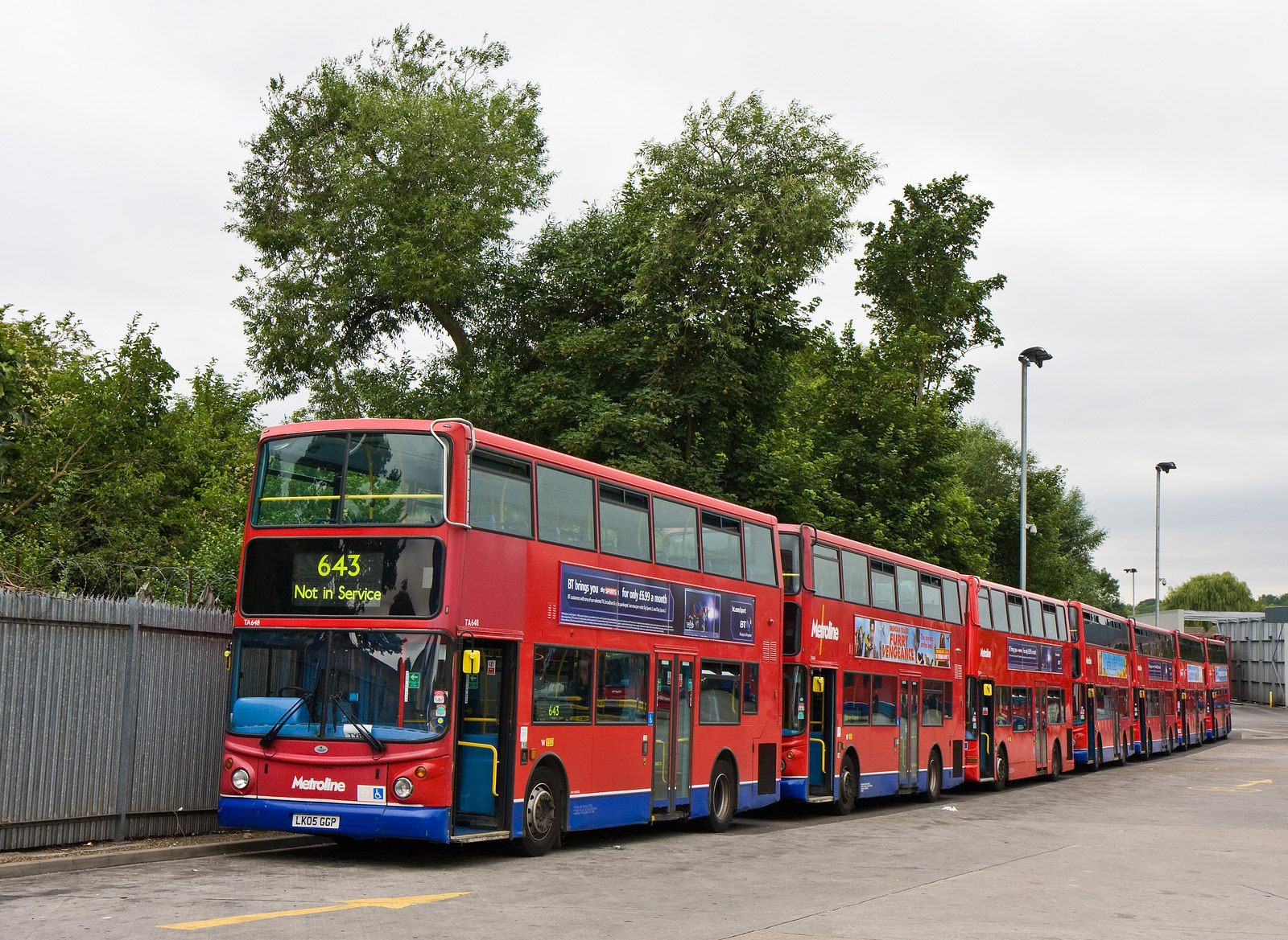 Cricklewood Line Up, Data from Geograph: Description: A line of buses between duties at Metroline's Cricklewood Garage. The majority of the vehicles in the line are Dennis Tridents with Alexander ALX400 bodies, although there is one Plaxton President bodied interloper third in... more ICBM: 51.56218409944, -0.22161951836117 Location: (about 2 km from) near to Willesden, Brent, Great Britain.